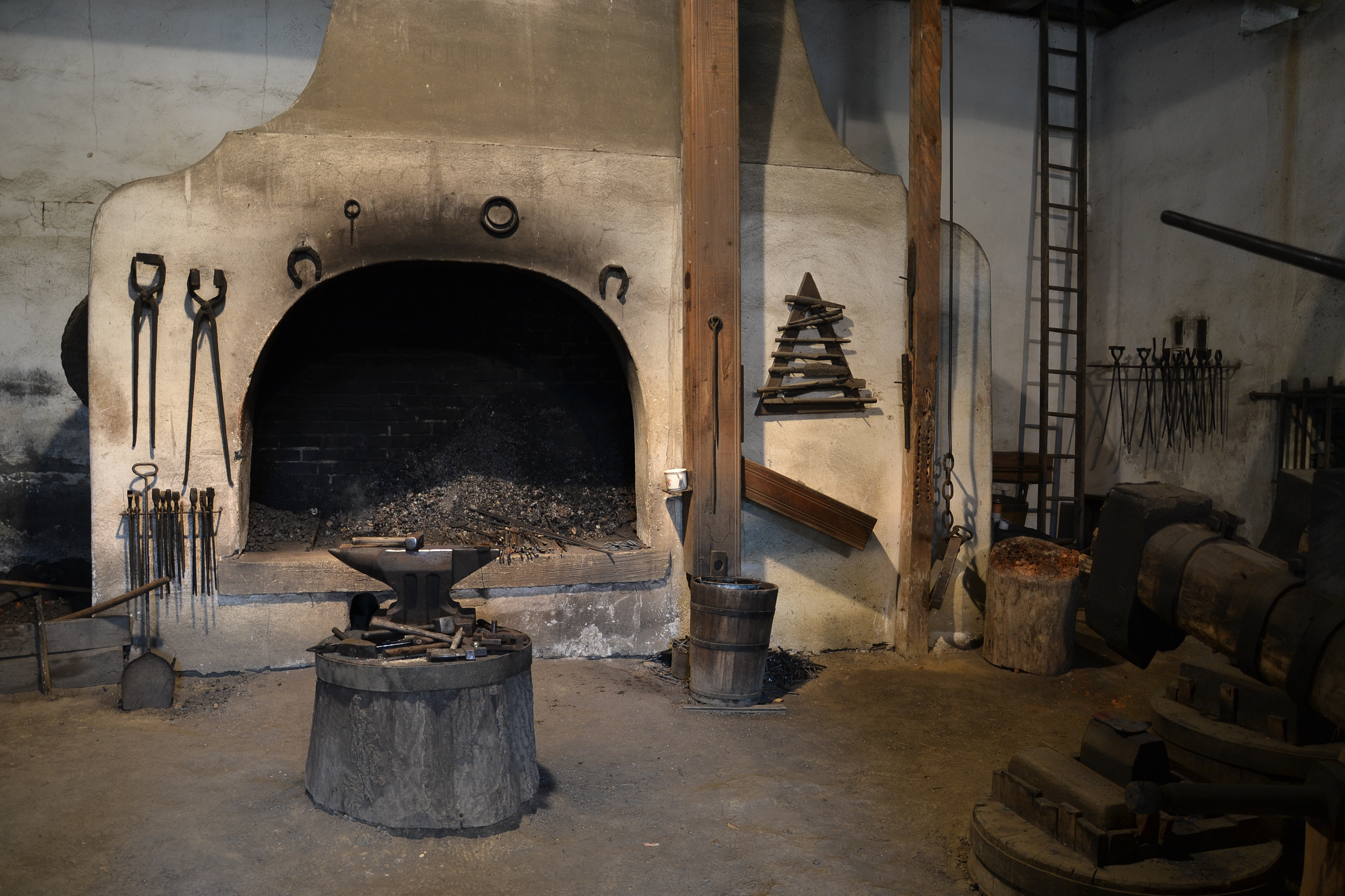 Wallachian Open Air Museum, Mlýnská valley - smithy